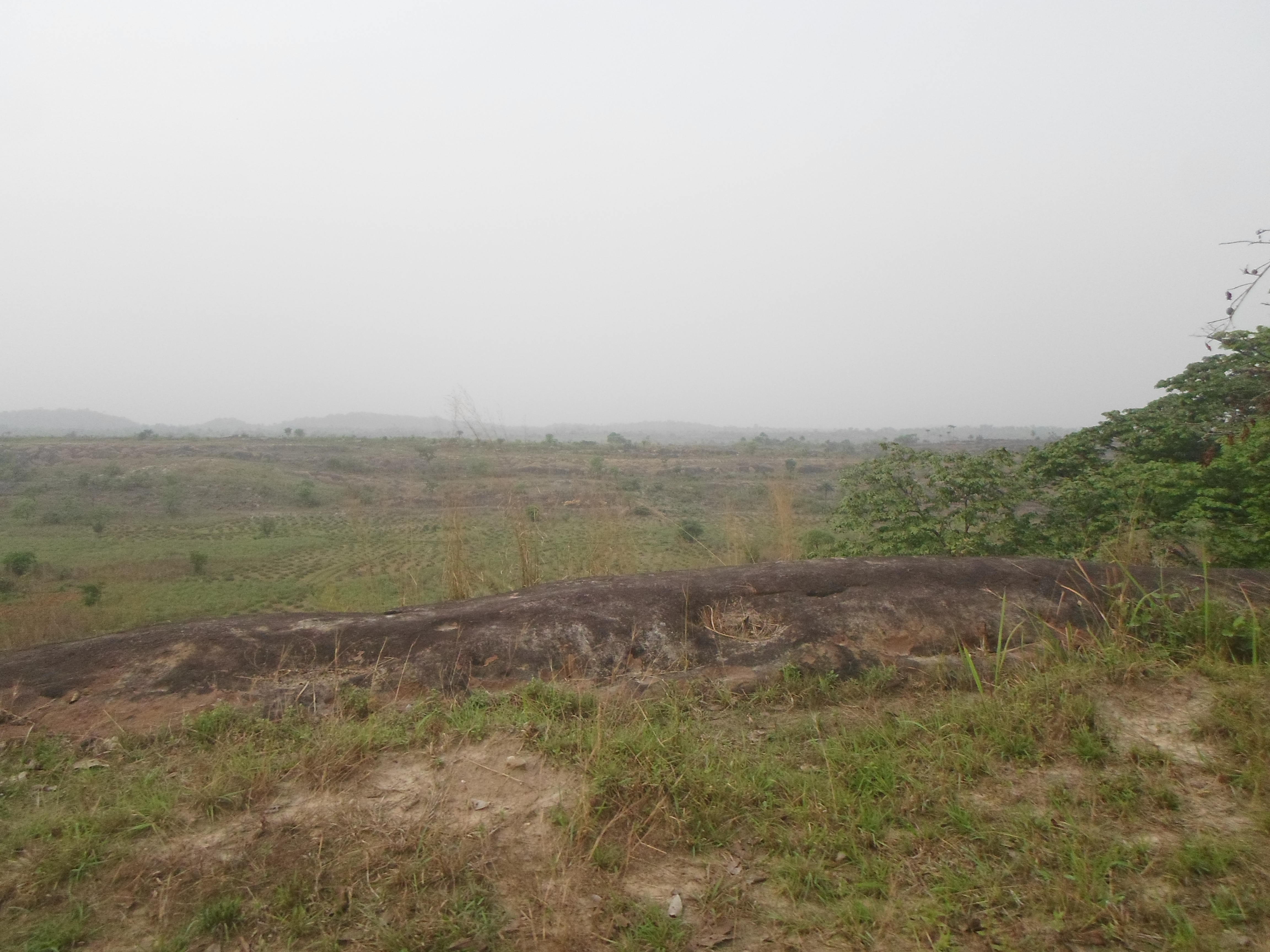 This is an image with the theme "Play" from: Nigeria